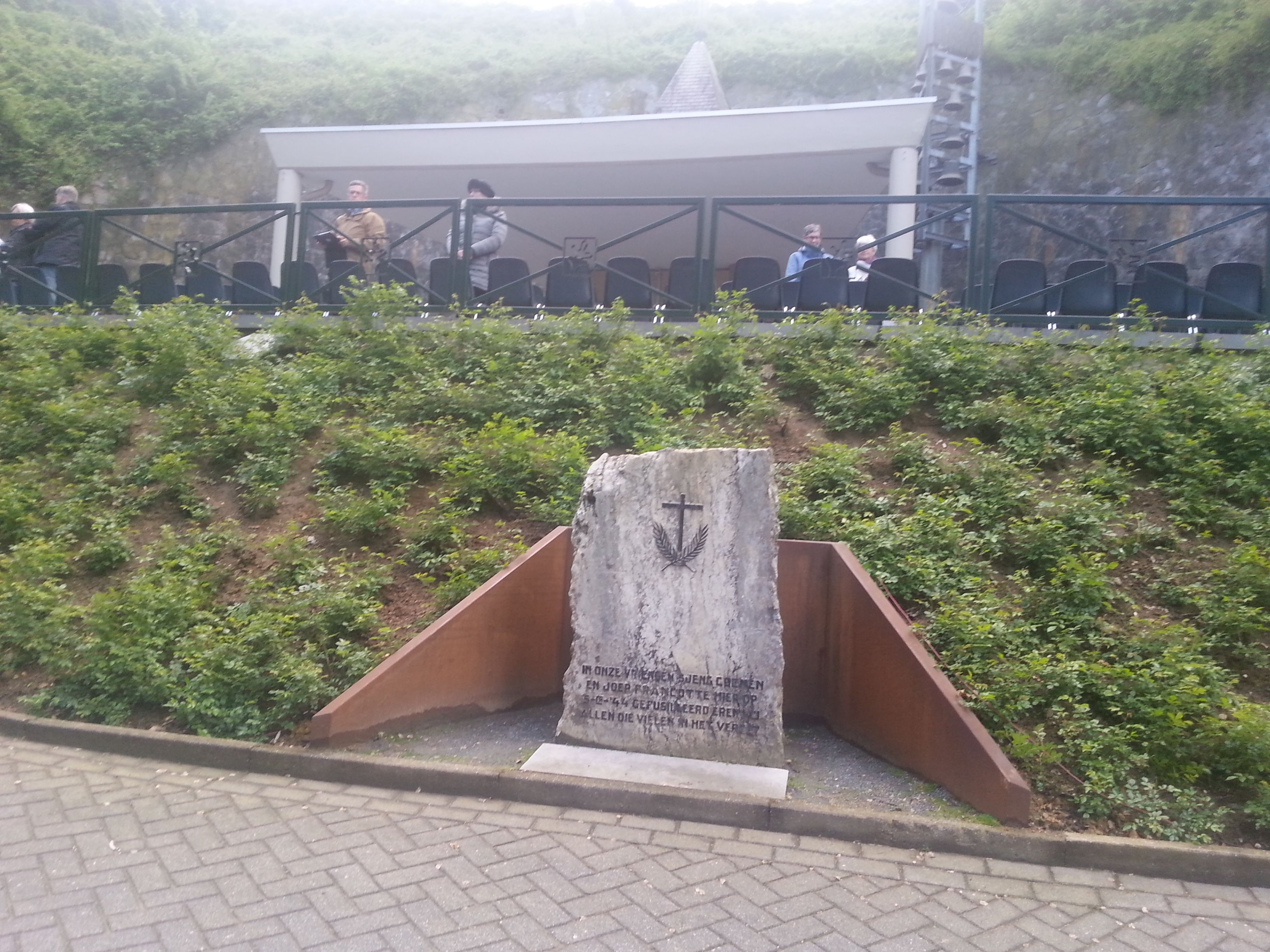 Here, in front of the Provincial Resistance Monument on the Cauberg, the underground fighters Sjeng (John) Coenen and Joep (Joe) Francotte were shot on 5 September 1944, just before the liberation of Valkenburg. The photo was taken just before the commemorative ceremony for the victims of the war, on May 4, 2019